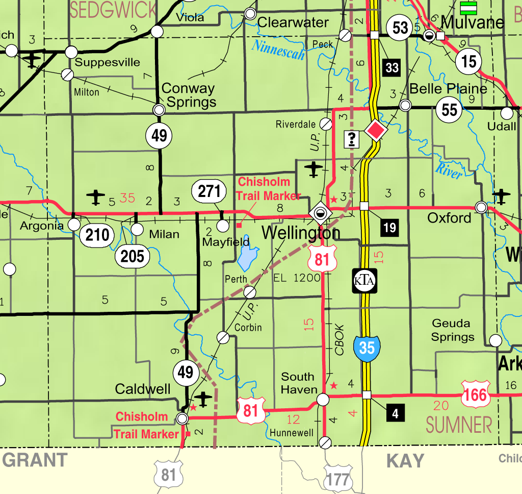 This map of Sumner County, Kansas, USA, is copied at a resolution of 300 pixels/inch from the original PDF file.